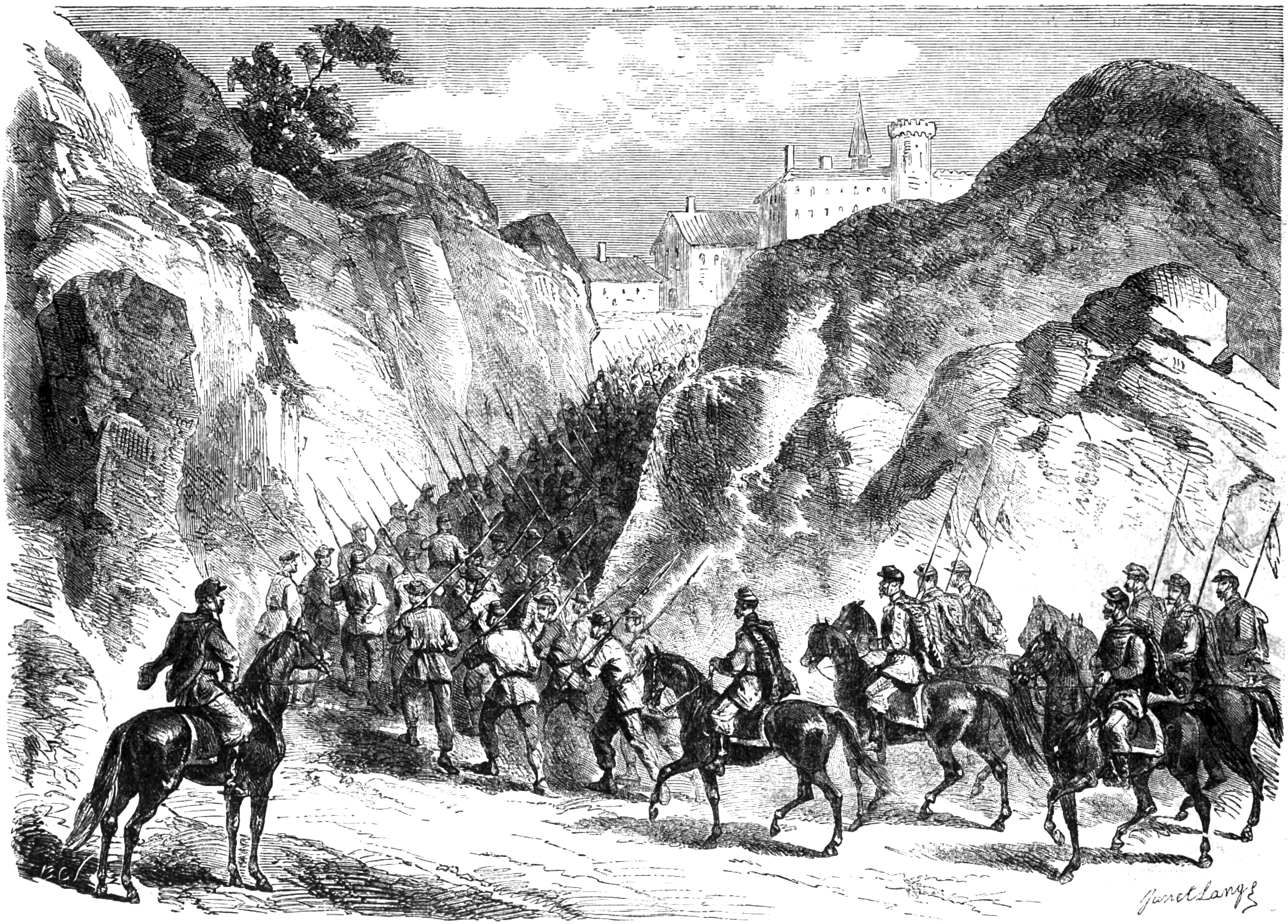 Detachment of Aleksander Krukowiecki (Brzeziński) near Pieskowa Skała 1863